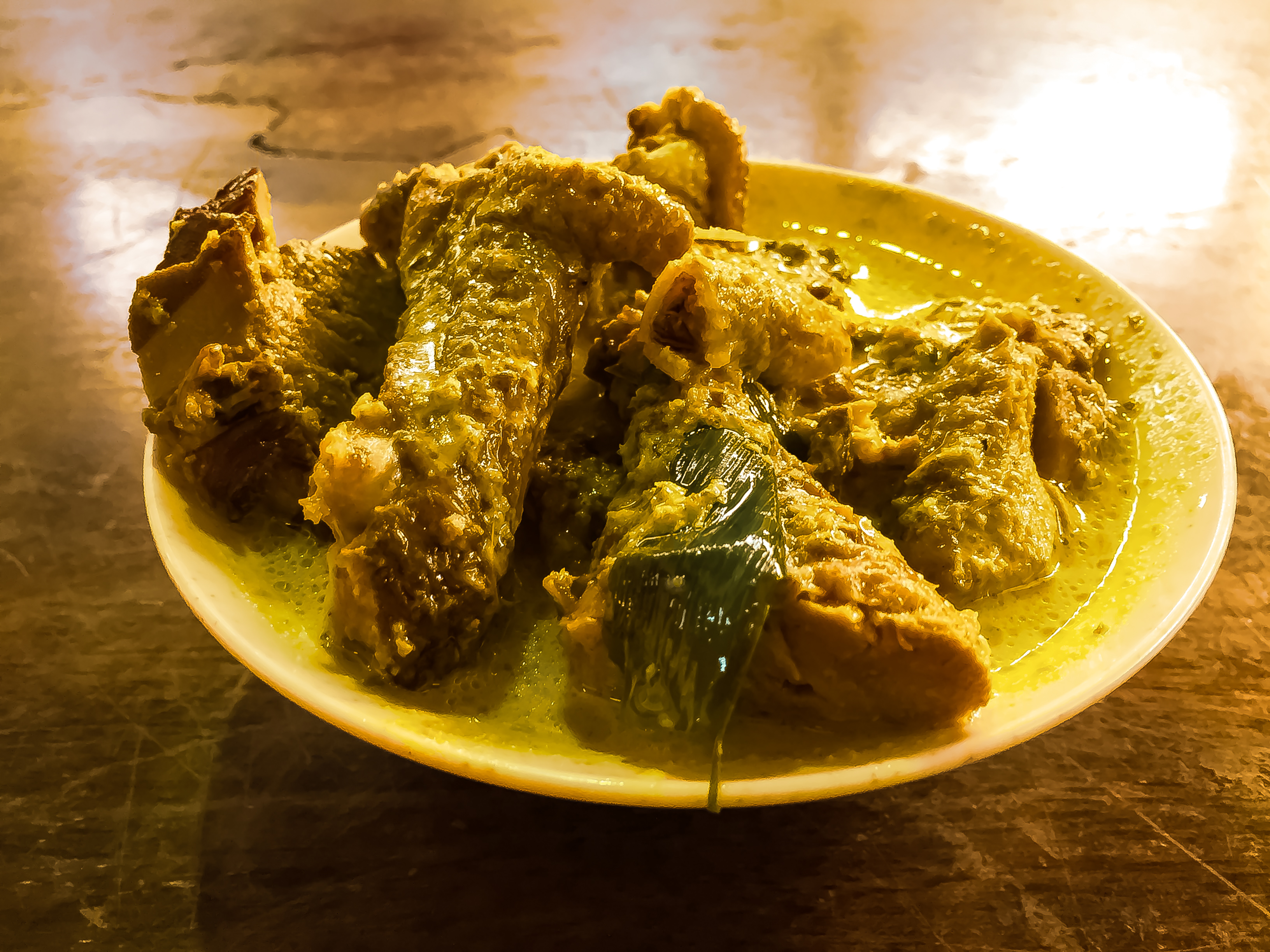 Itek Masak Lomak Cili Api, smoked duck with thick creamy and spicy gravy.